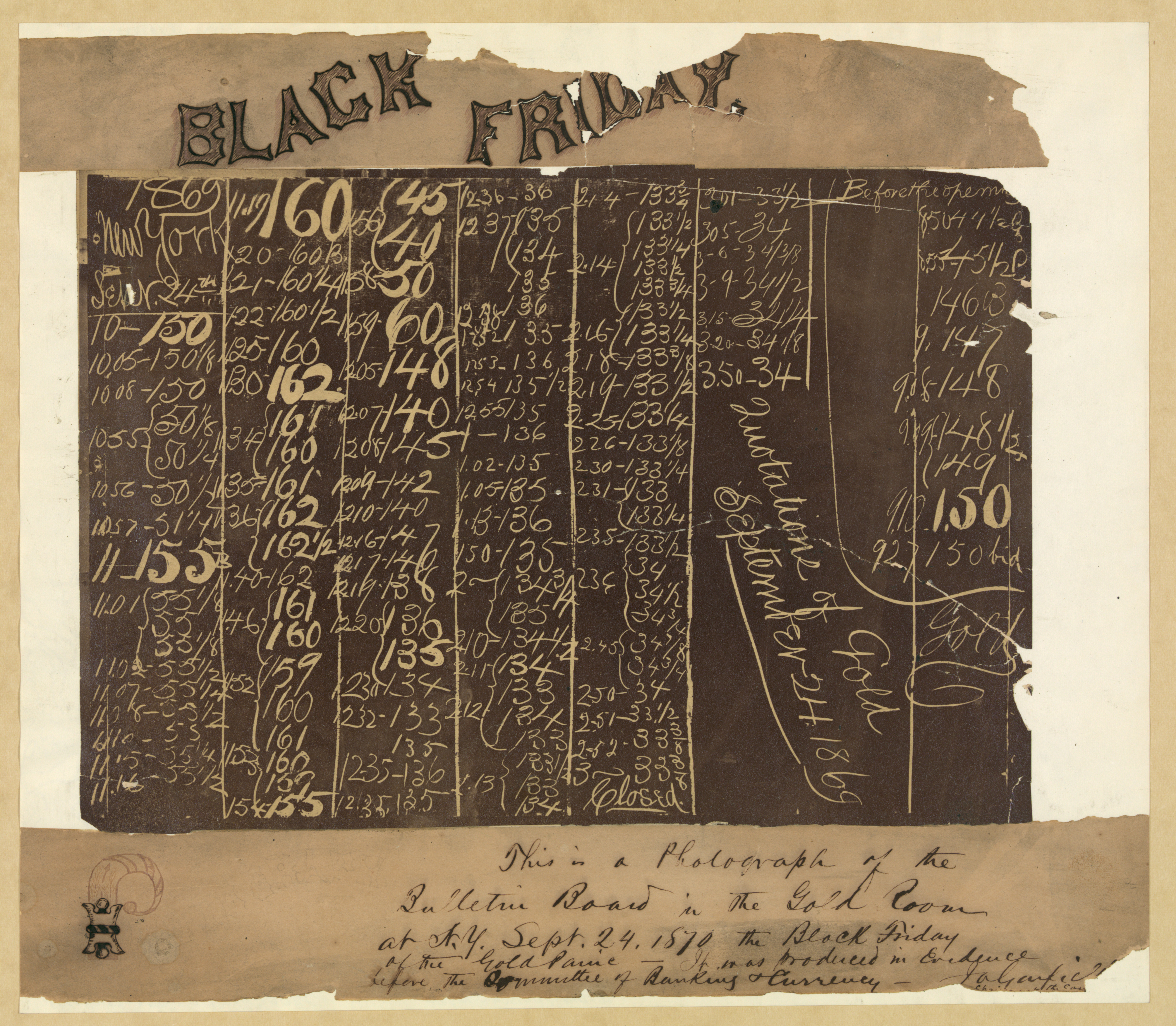 Photograph of the black board in the New York Gold Room, September 24, 1869, showing the collapse of the price of gold. Handwritten caption by James A. Garfield indicates it was used as evidence before the Committee of Banking & Currency during hearings in 1870. Caption and LOC note: "This is a Photograph of the Bulletin Board in the Gold Room at N.Y. Sept. 24, 1870 [i.e. 1869] the Black Friday of the Gold Panic - It was produced in Evidence before the Committee of Banking & Currency - J. A. Garfield Chair[...]of the Com[...]" (Black Friday was September 24, 1869. The hearings were in 1870. Damage to the lower right corner has removed a portion of the photo caption).